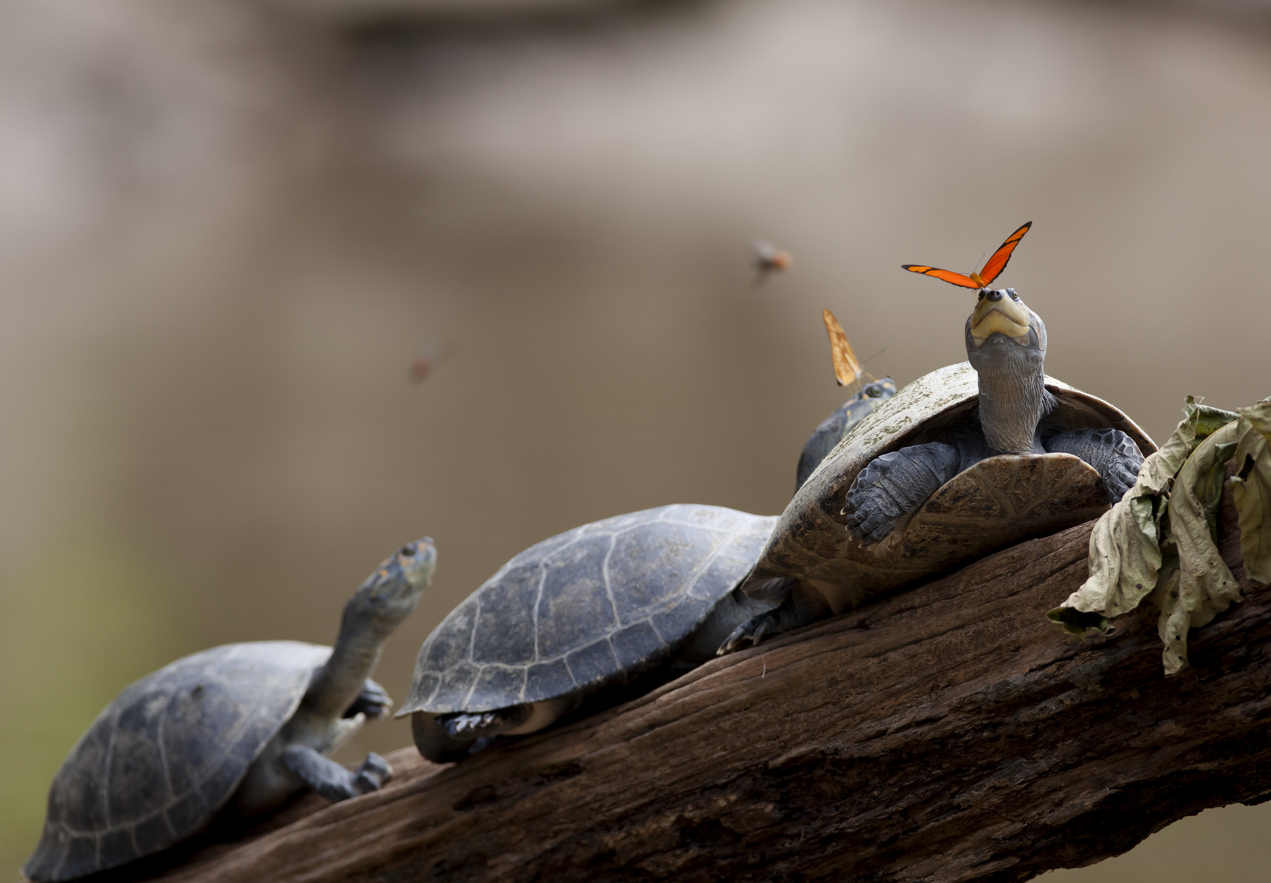 Two Julia Butterflies (Dryas iulia) drinking the tears from the turtles in Ecuador. The turtles placidly permitting the butterflies to sip from their eyes as they basked on a log. This "tear-feeding" is a phenomenon known as lachryphagy.